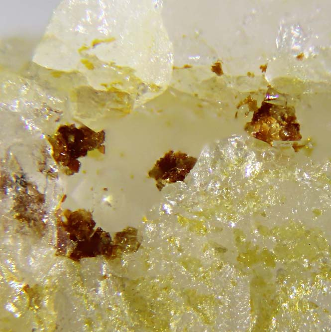 Orange crystals of the rare very rare mineral tooleite from a new find in Spain: Alcantarilla Mine, Belalcazar, Córdoba, Andalusia, Spain.